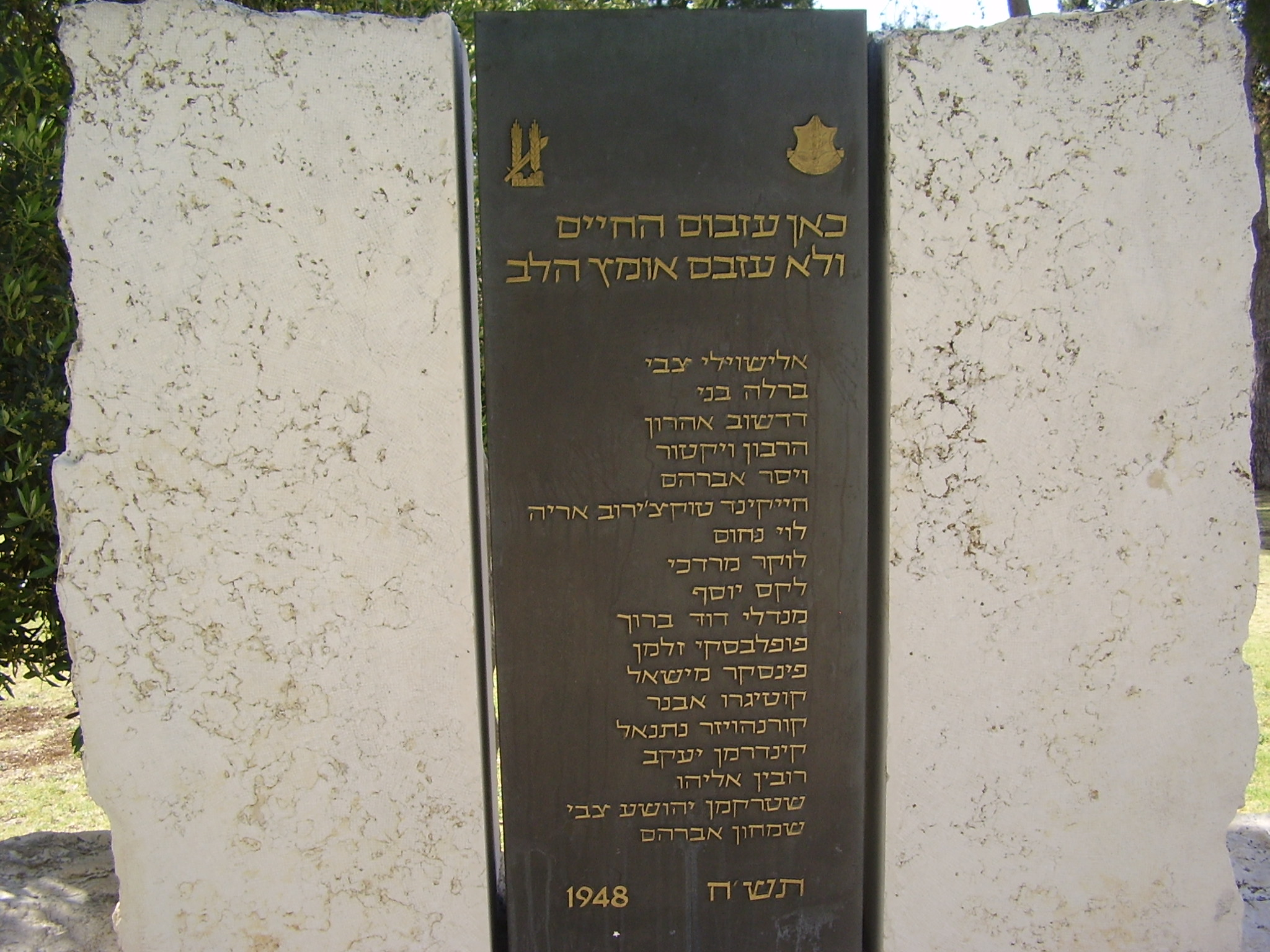 Monument to the fallen in St. Simon monastery in the independence war